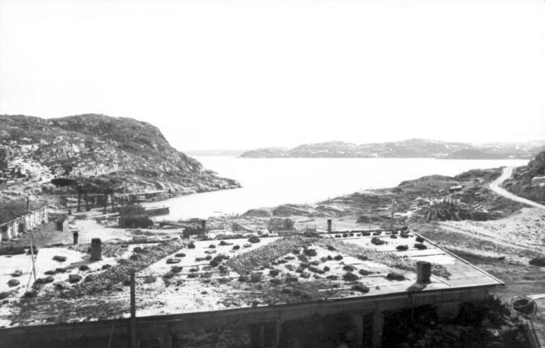 Information added by Wikimedia users.Harbour at MAB 4./517 Mestersand north of Kirkenes, Finnmark, Norway. Buildings are razed today, parts of the harbour intact. View towards South/Southwest.